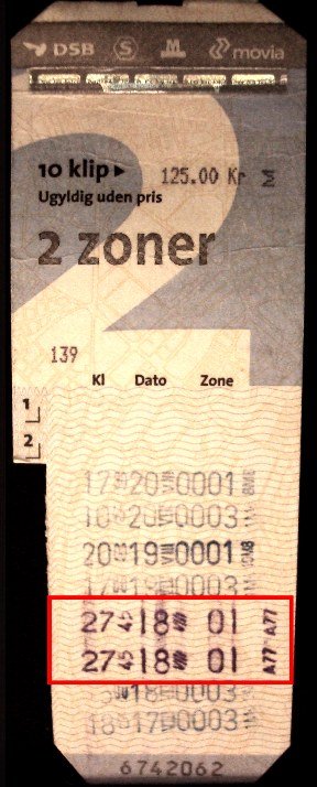 Highlighted section of a Danish multi-ride ticket to illustrate non-standard beyond-24-hour time systems.